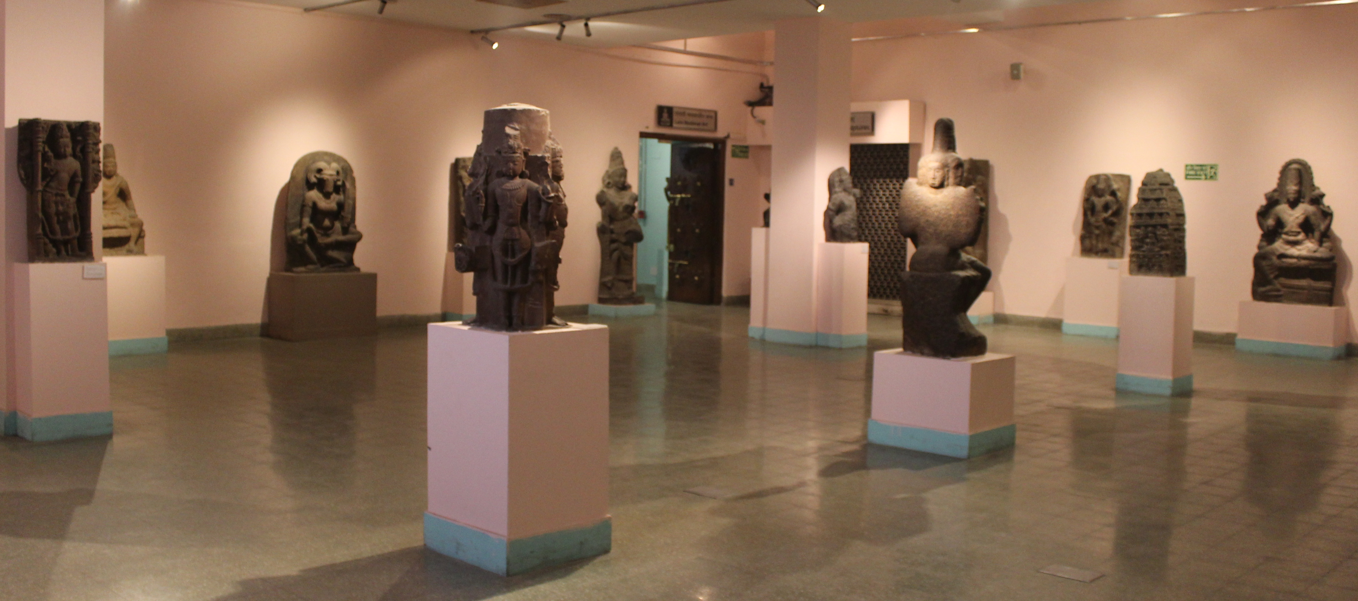 A view of the Early Medieval Gallery